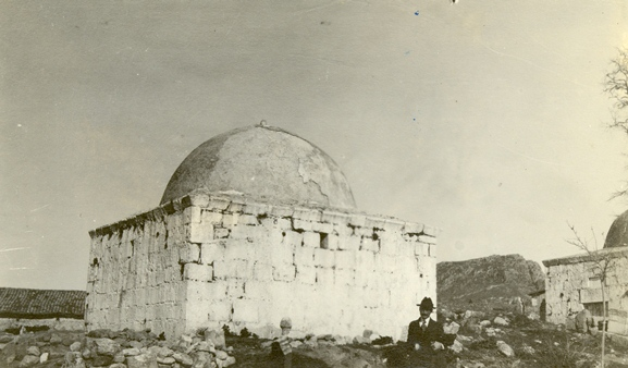 Caption: Tomb of revered man near Antioch, Syria. People offer sacrifices in niches in wall. Citation: Silas and Anna Weaver Hertzler Papers. Middle East Photographs, 1919-1920. HM1-197. Box 19 Folder 6. Mennonite Church USA Archives - Goshen. Goshen, Indiana.